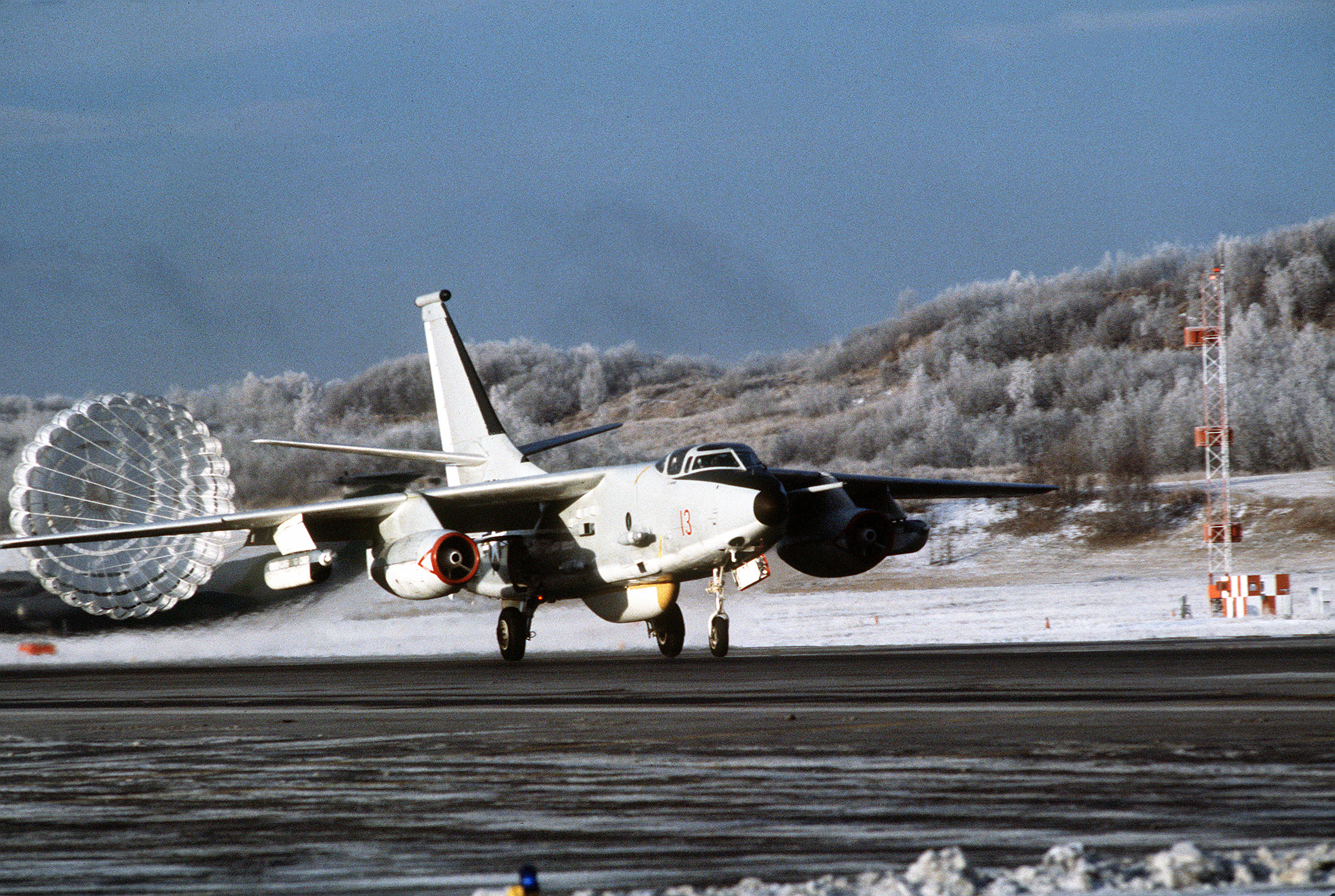 A drag chute opens as an Douglas ERA-3B Skywarrior aircraft of VAQ-34 lands during the U.S. 3rd Fleet North Pacific Exercise (NORPACEX) at Elmendorf Air Force Base, Alaska (USA), on 8 November 1987.